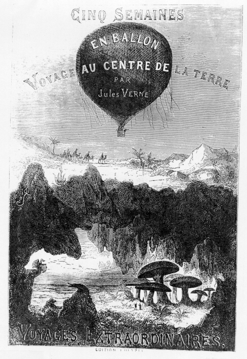 Book cover for a 'double hitter' containing the two first Jules Verne novels: "Five weeks in a baloon" and "Journey to the Center of the Earth" Etching by Édouard Riou for the Hetzel publishing house, probably late 1860's.